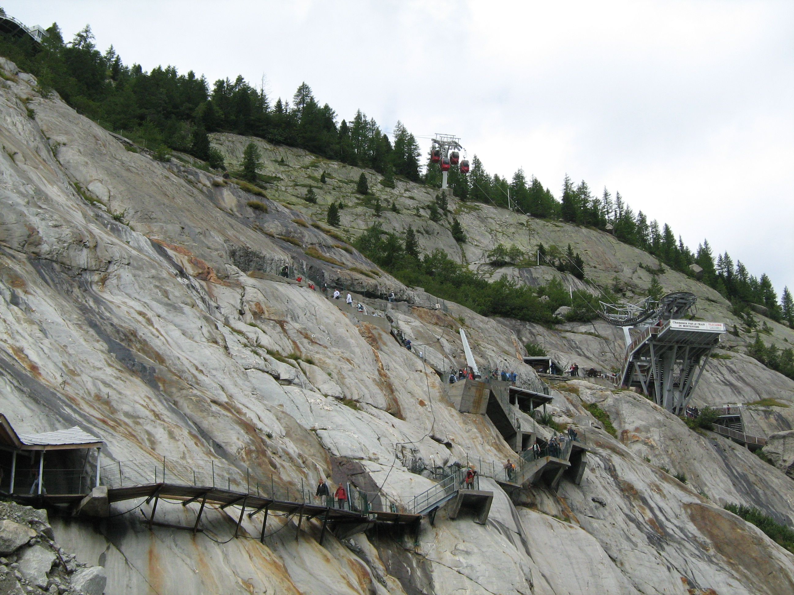 Montenvers with the cableway and the path to the ice cave in Mer de Glace. August 2007.